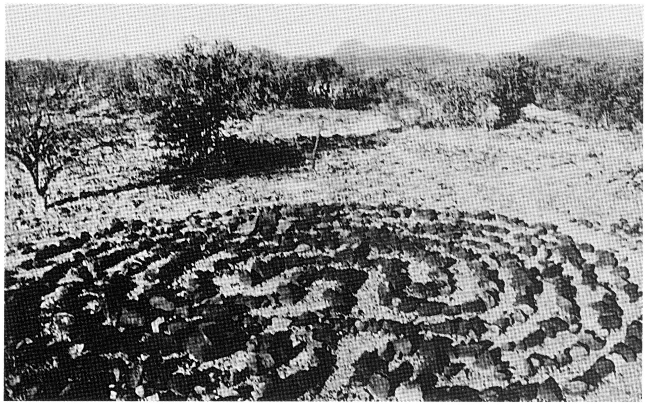 Stone labyrinth made by the Yaqui tribe in Sonora, Mexico. The photo shows half of a two-part labyrint. It was reportedly destroyed a year later.